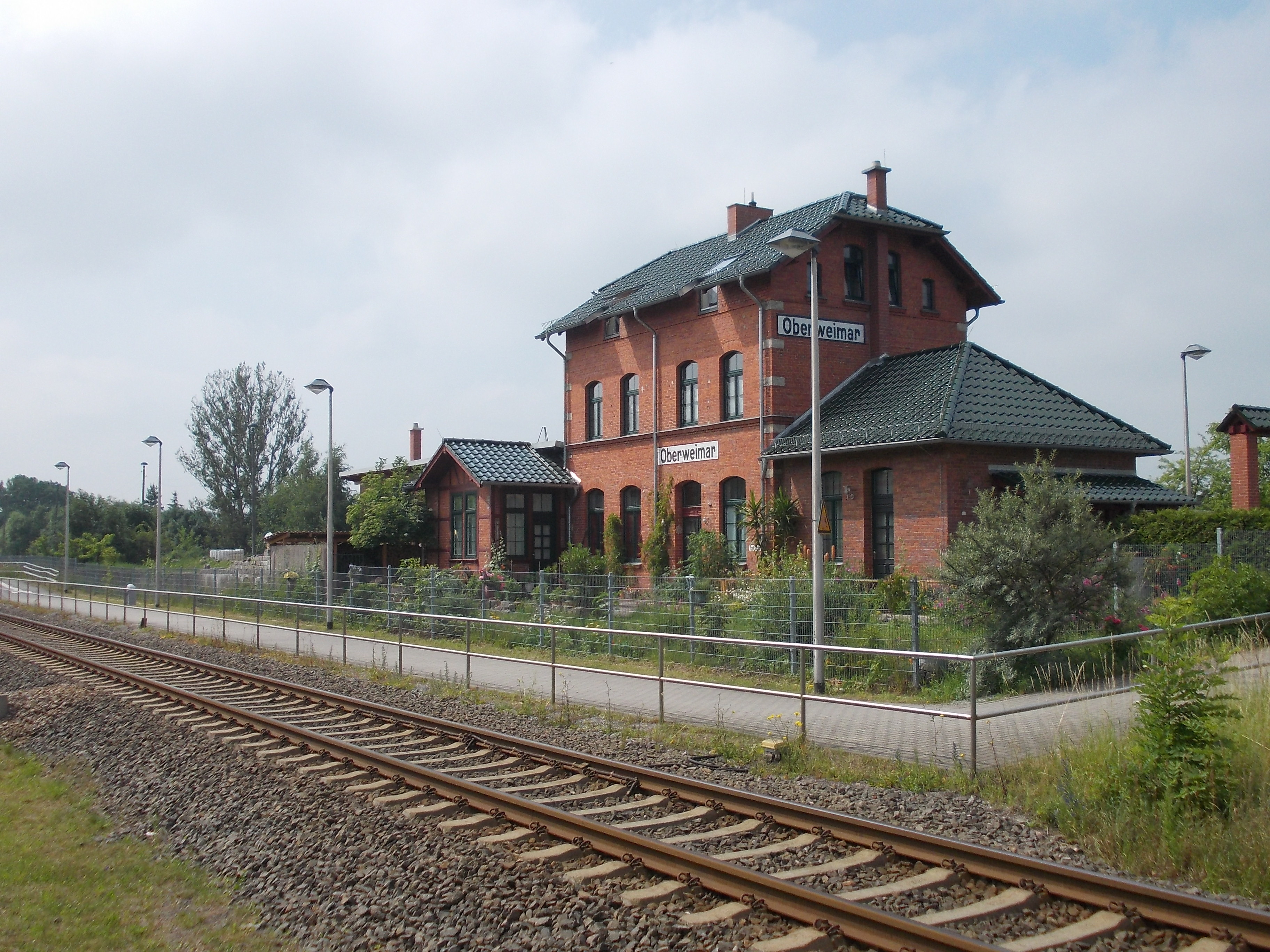 Oberweimar train station (Weimar, Thuringia)